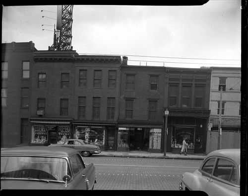 895 N. Howard Street Baltimore MD 21201, November 29, 1957.